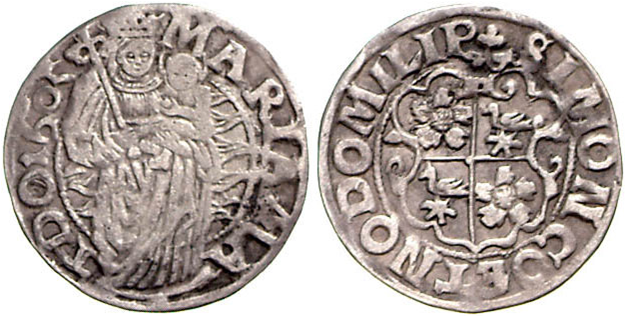 Coin of the Principality of Lippe: 1 Mariengroschen, 1605